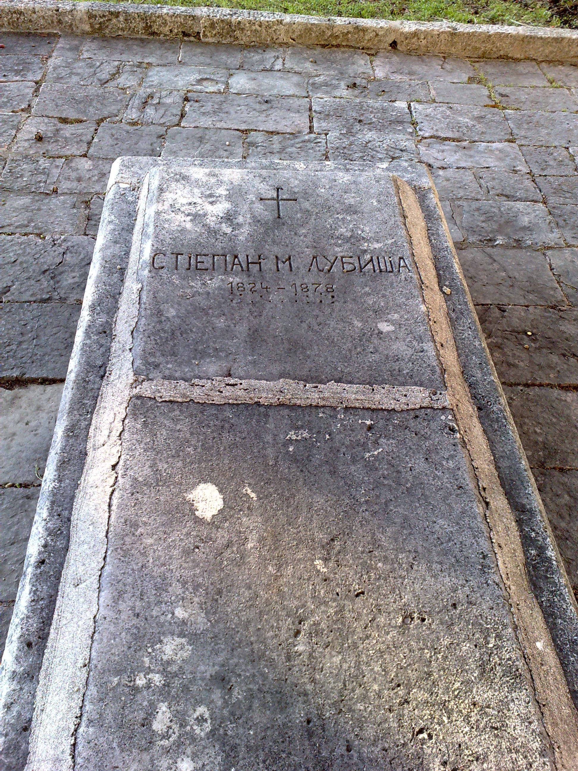 Tombstone on the grave of Stjepan Mitrov Ljubisa in the Old Town in Budva